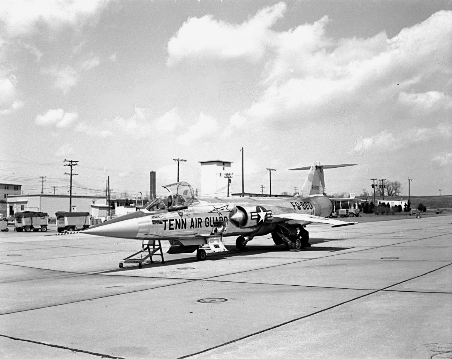 A U.S. Air Force Lockheed F-104A-25-LO Starfighter (s/n 56-0860) assigned to the 151st Fighter-Interceptor Squadron, 134th Fighter Group, Tennessee Air National Guard, at McGhee Tyson Air Force Base, Knoxville, Tennessee, between 1960 and 1963.